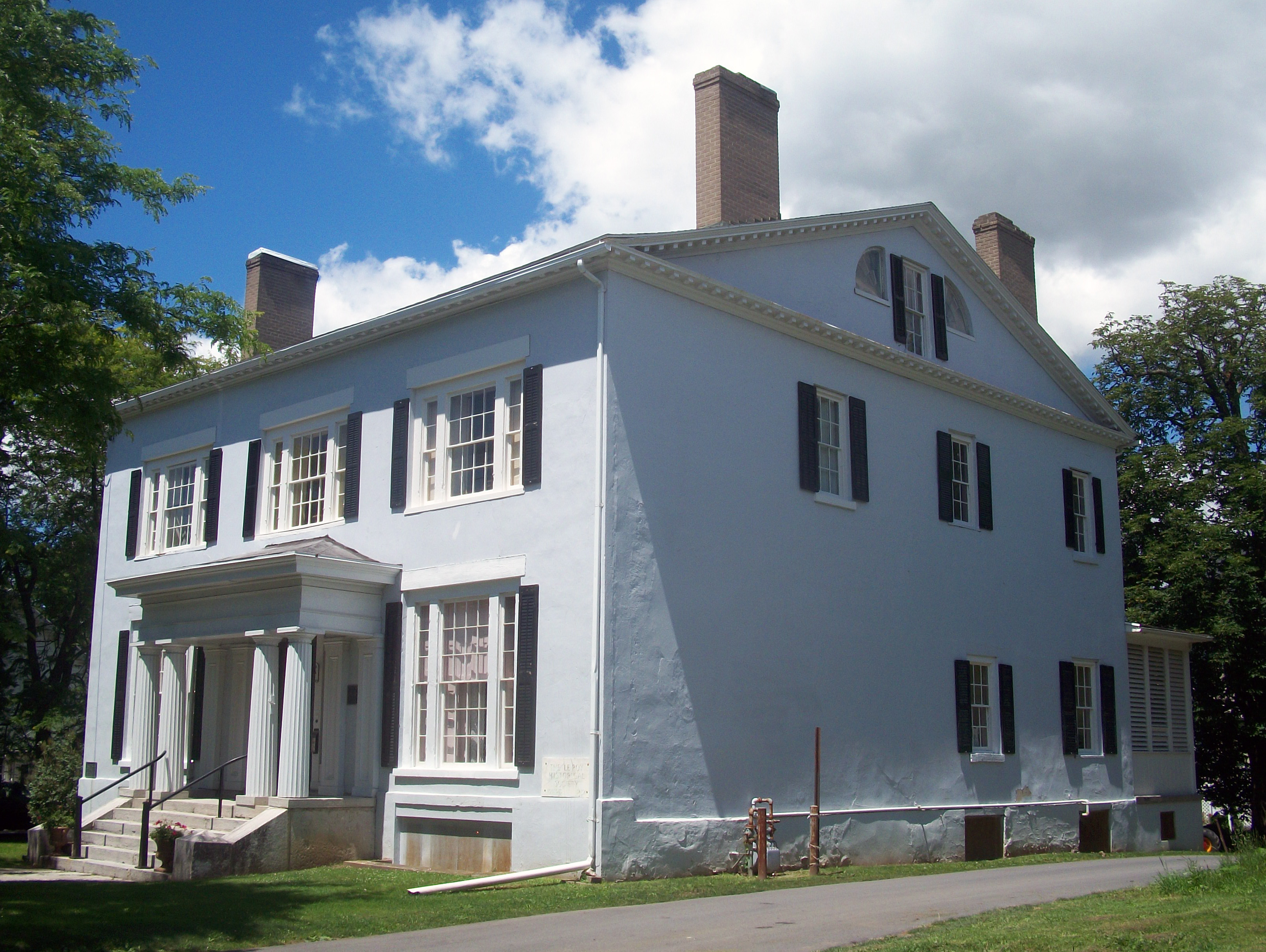 Le Roy House, Le Roy, NY, USA